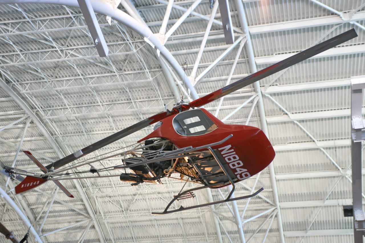 The Scorpion Too consisted of aluminum components mounted on a truss-frame, steel tube tail boom attached to a steel-tube fuselage enclosed by a smooth Fiberglas shell. A builder or pilot could remove the shell for easier access to internal equipment. Schramm and Everts based the Scorpion Too main rotor blade design on the two-blade, teetering system pioneered by Arthur Young on the Bell Model 30 helicopter (see NASM collection). Young's design was simple and lightweight. The most novel technical feature on the Scorpion series was the method used to transmit engine power to the tail rotor. Three V-belts coupled the long shaft turning inside the tail boom to the engine drive shaft and final tail rotor drive shaft. Nearly all helicopters used gear boxes to step the power from one shaft to the next but the Scorpion Too could not afford the weight penalty of heavy gears turning inside metal boxes filled with lubricating fluid. A standard drive shaft was not compatible with the lightweight structure of the aircraft, as it was too light to withstand the vibrations generated by the rotor system.